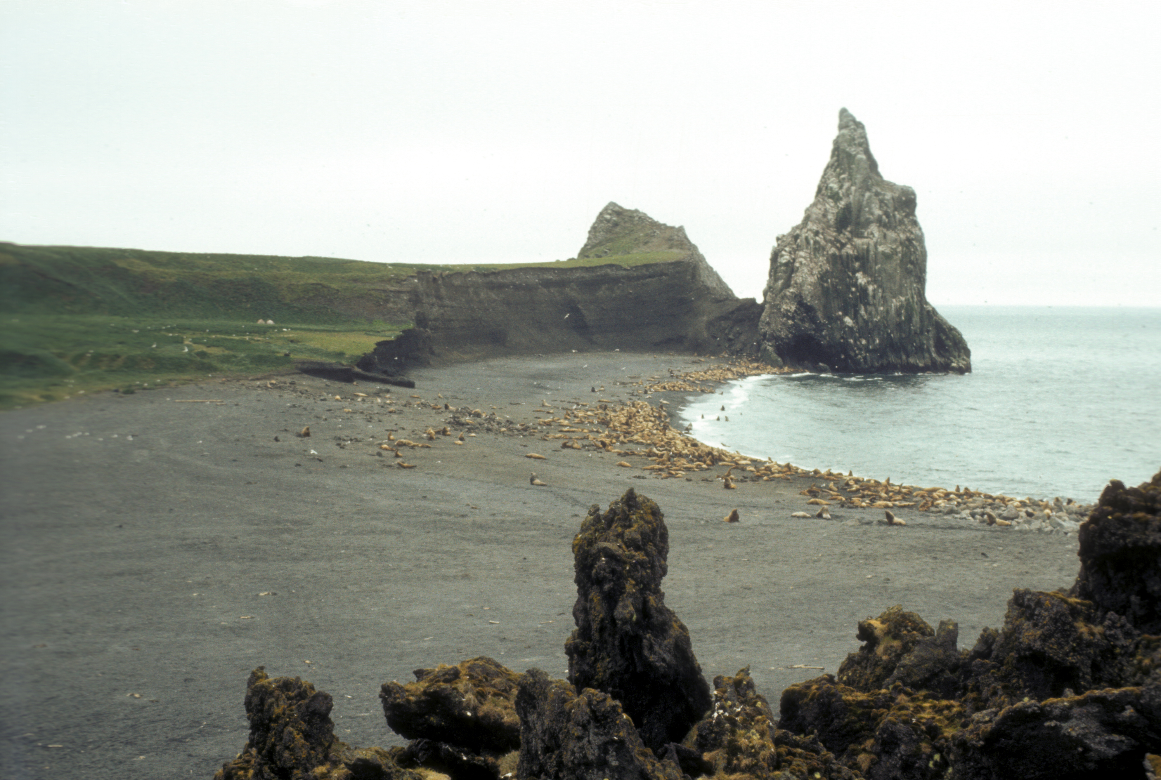 Bogoslof Island Transferred from en.wikipedia, Original uploader was Mattisse at en.wikipedia, original upload date 20:21, 18 November 2009 (UTC)